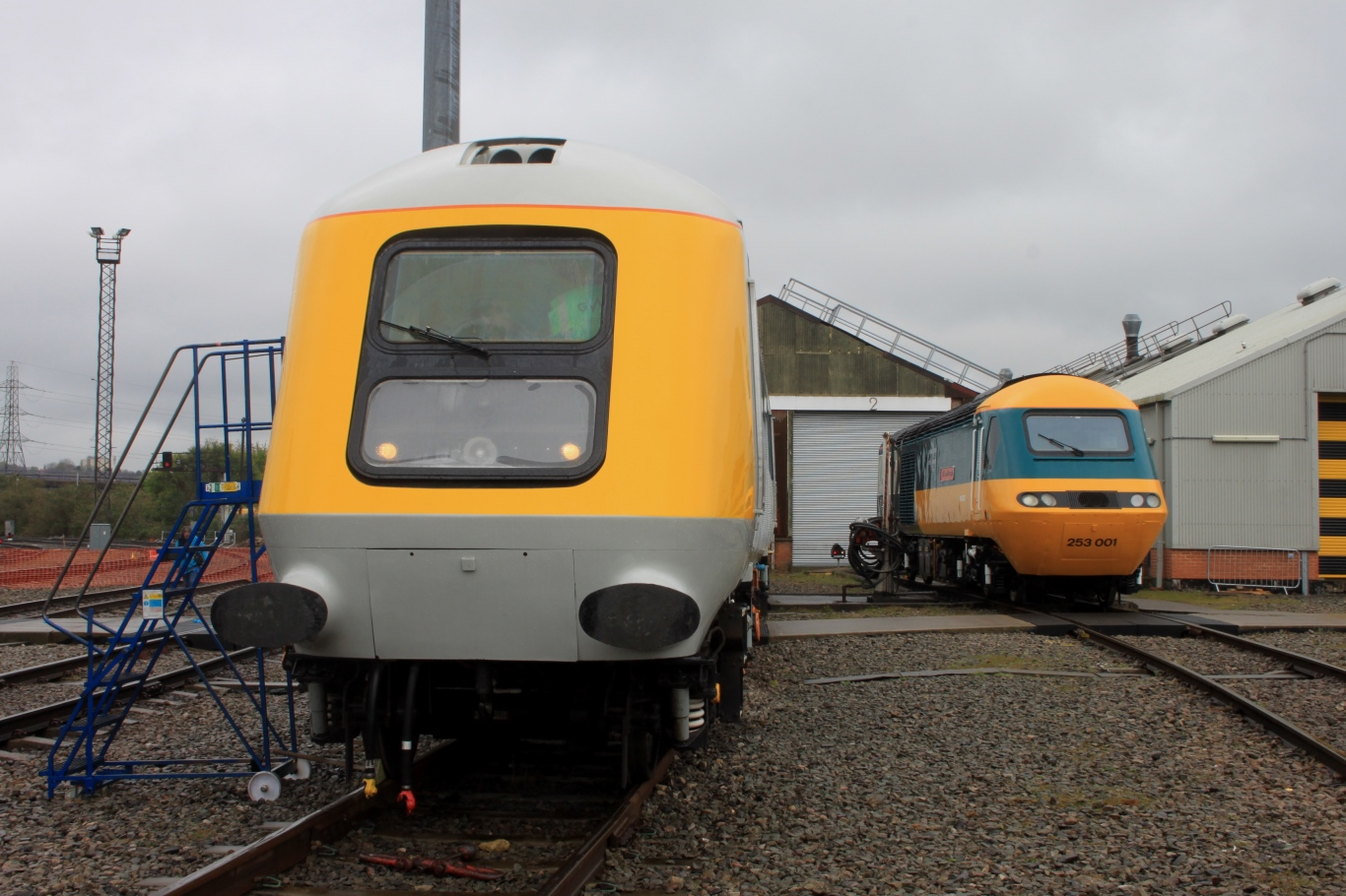 Two 1970s High Speed Train power cars meet at St Philip's Marsh depot in 2016. On the left is prototype power car 41001, now a part of the National Collection. On the right is 43002, the first production power car, which has been restored here to its original colours.